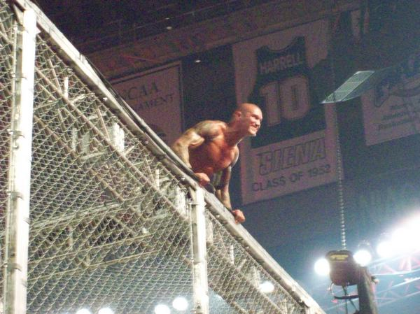 Randy Orton Staring At Cena